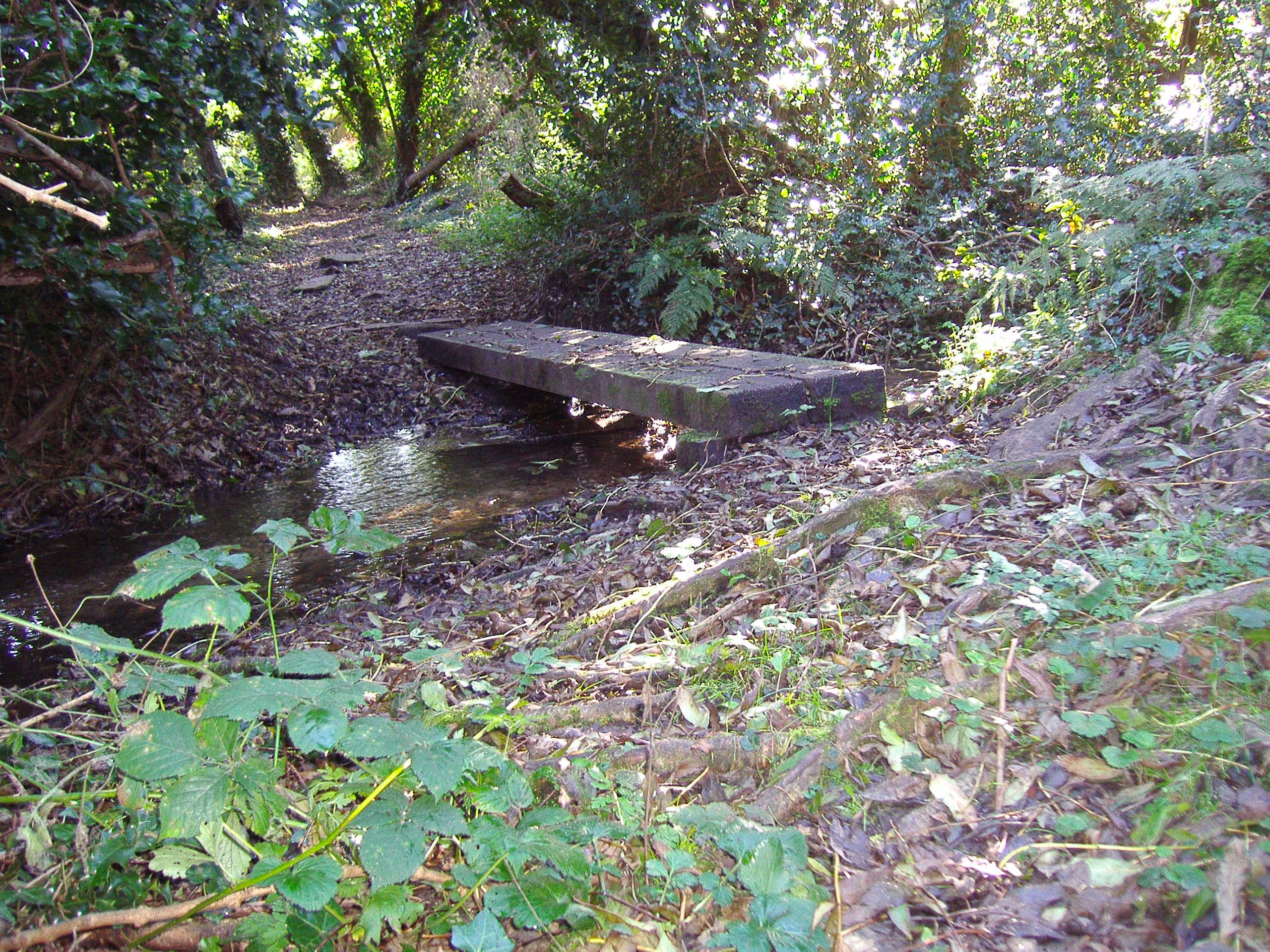 A Digital photograph of Beeston Beck in Sheringham Woods close to its springs.